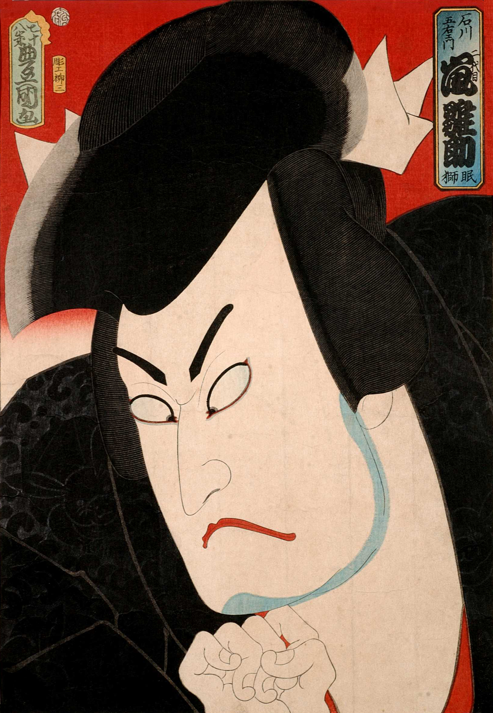 “Hinasuke Arashi as Goemon Ishikawa”, Kinshōdō-ban Ōkubie series by Toyokuni Utagawa III